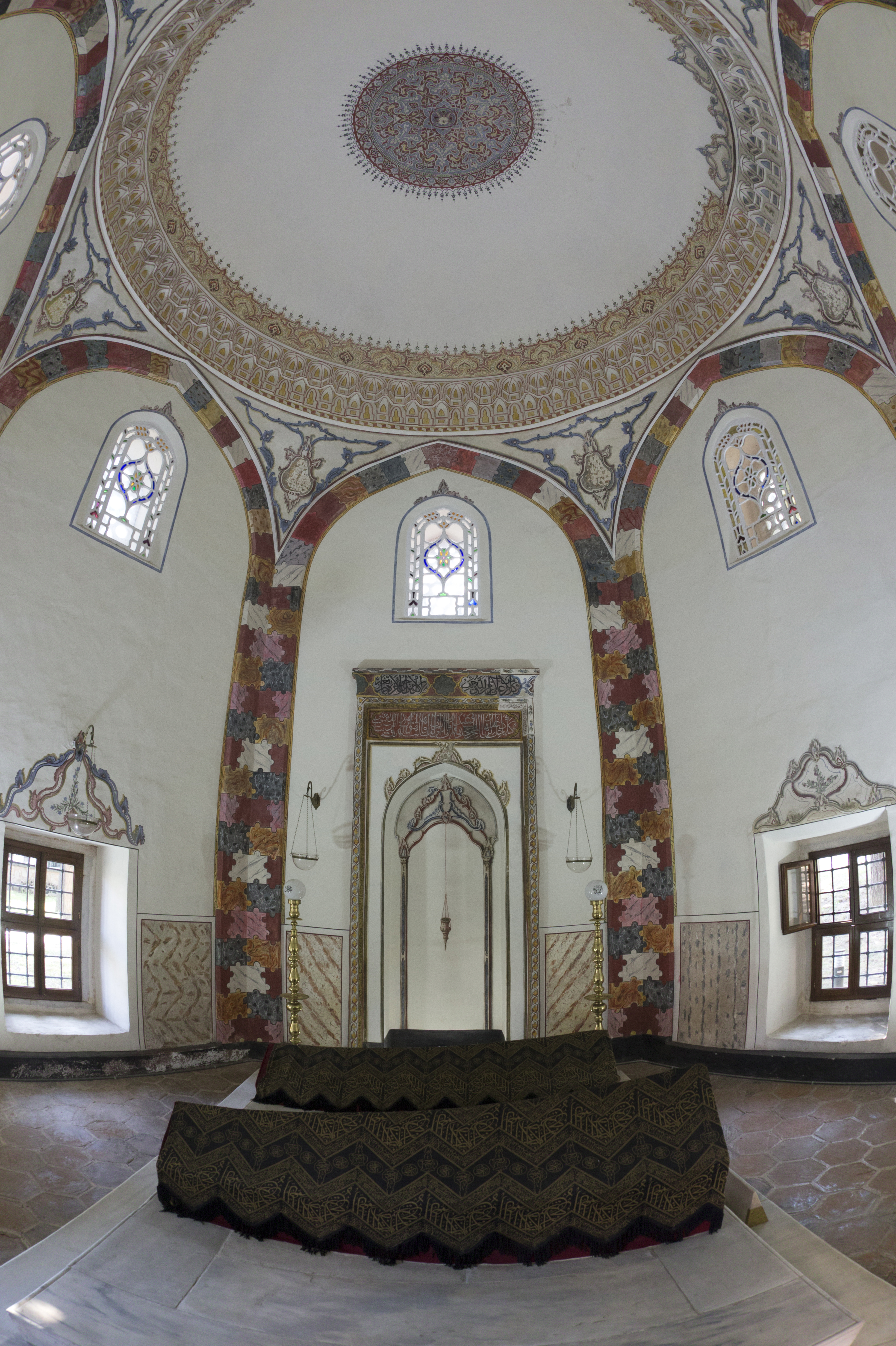 Its three-lined epitaph board written in Arabic states that the construction of this mausoleum was ordered by Murad II and that it was built in 1449 by his son, Mehmet the Conqueror, for his mother, Hüma Hatun. It’s also known as the Ak Türbe, the White Mausoleum, or the Hatuniye Türbesi. Inside are hand-drawn 19th century ornaments. Huma Hatun’s sarcophagus is placed on a marble platform, of another sarcophagus it’s unknown who was buried there.